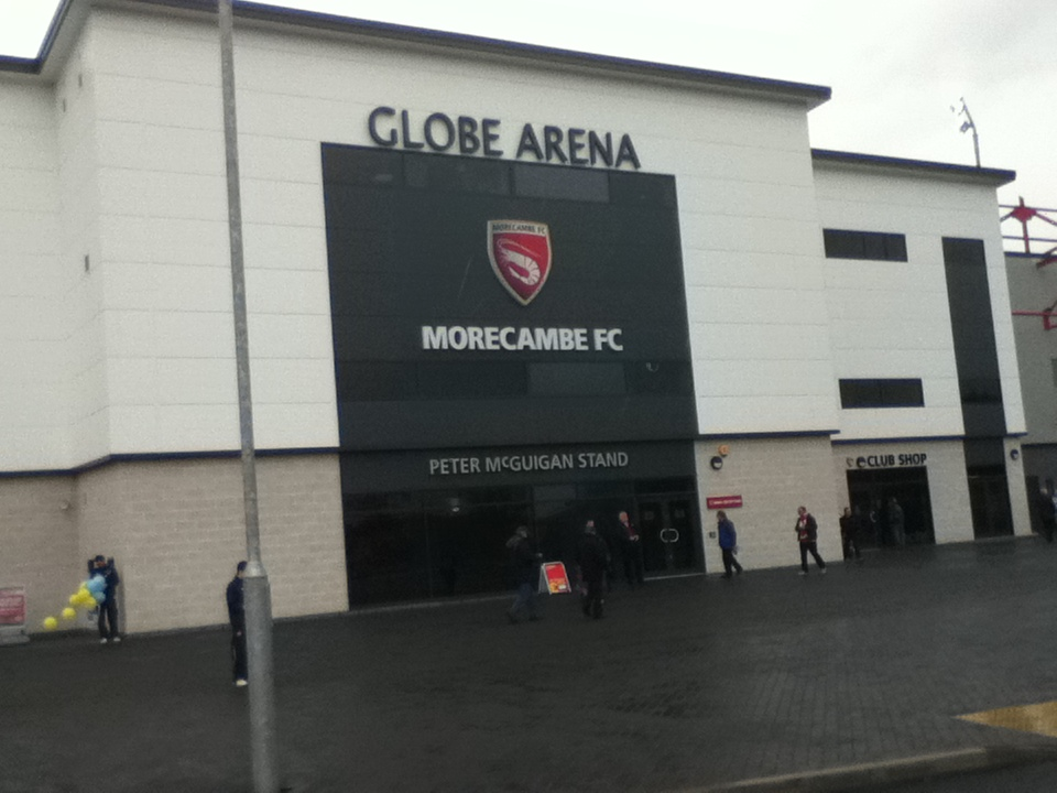 The Peter McGuigan Stand at Morecambe F.C.'s stadium.